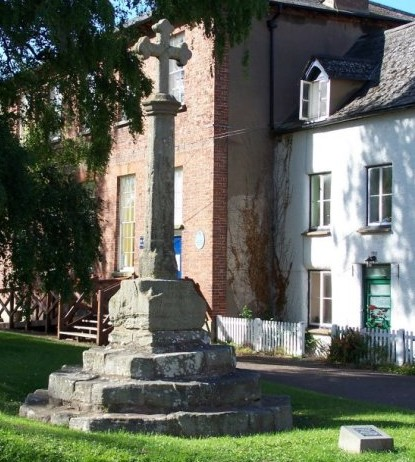 Plague cross in St Mary's parish churchyard, Ross-on-Wye, Herefordshire. Taken from with permission of the owner.